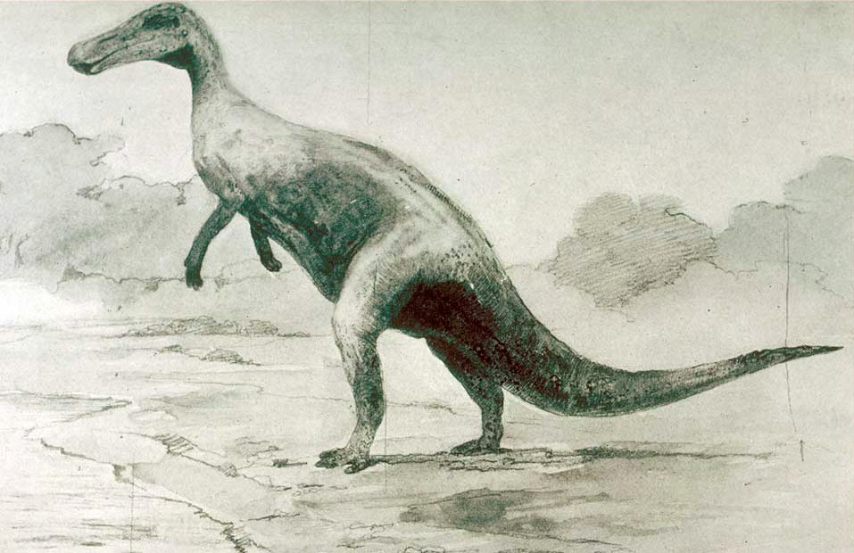 Thespesius (based on specimens now assigned to Edmontosaurus) by Charles R. Knight (1874-1953) from Smithsonian Annual Review 1901 United States